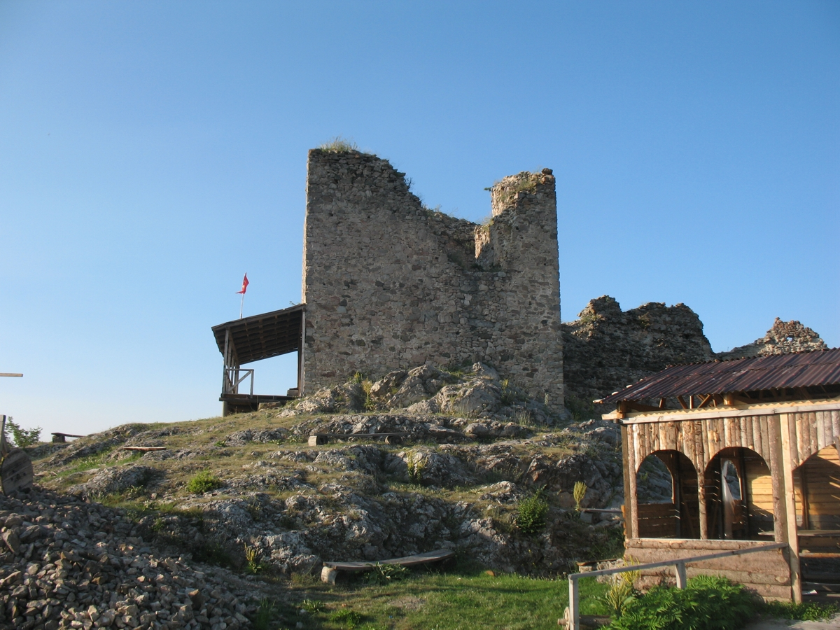 Donjon tower in Koznik fortress above Rasina river on Kopaonik slopes,near Brus, Serbia.